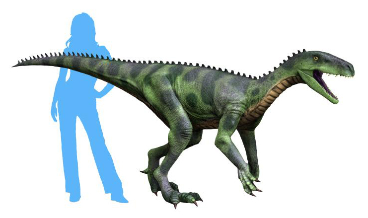 Life reconstruction of Herrerasaurus ischigualastensis